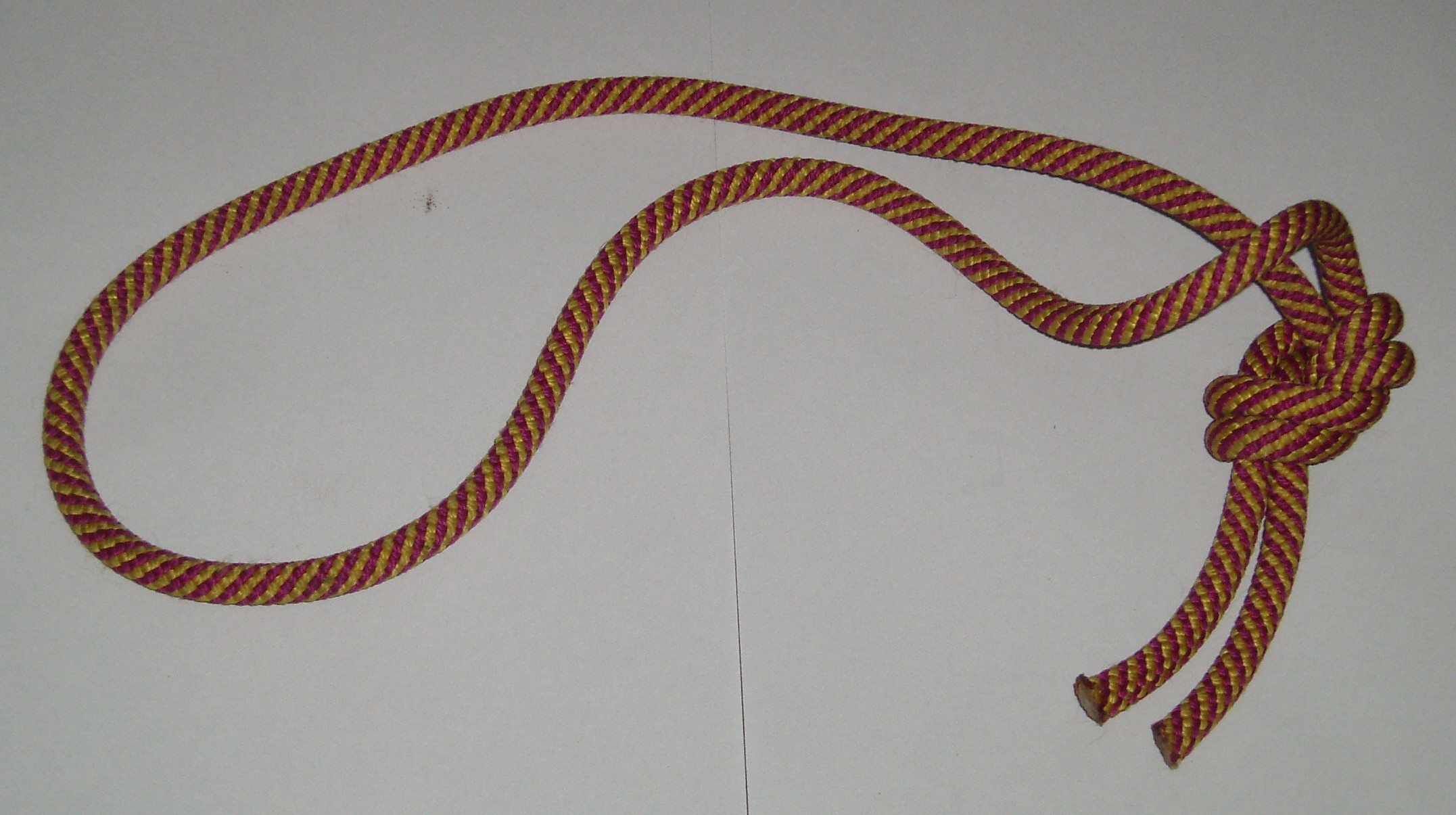 Piece of climbing Rope. Manufacturer: Lanex ( . Diameter: 8 mm.